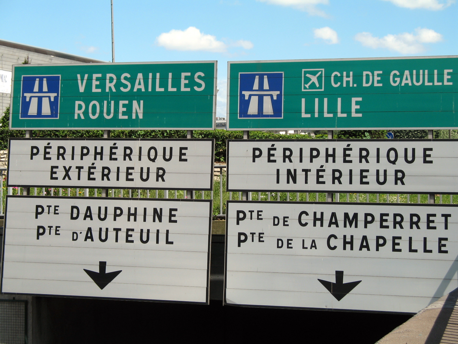 Sign for the Boulevard Périphérique (en, fr) around Paris, France.